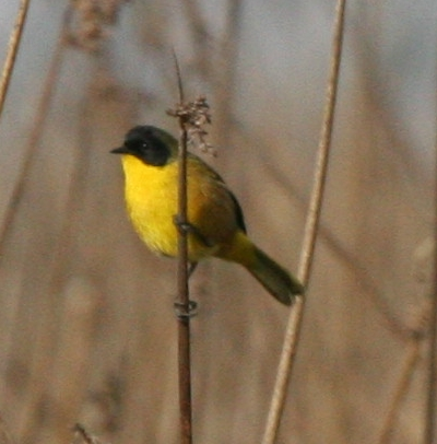 Black-polled Yellowthroat, Geothlypis speciosa, cropped version of Image:Black-polled Yellowthroat.jpg